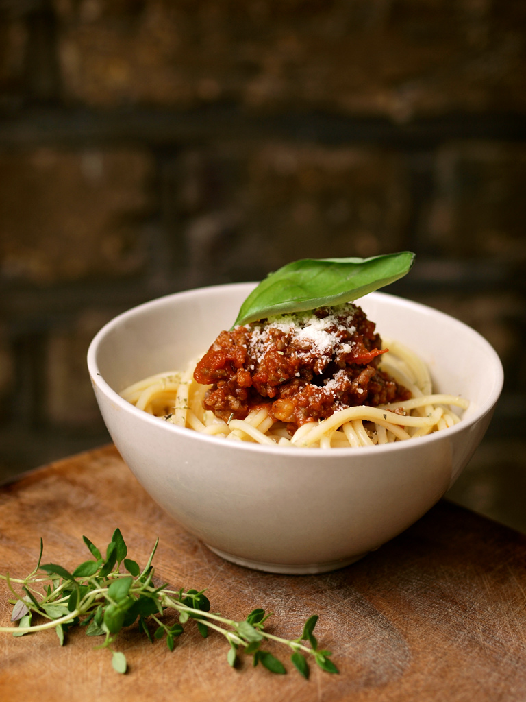 Flickr page description: With Thyme and Basil. Lit by overcast daylight on my balcony.